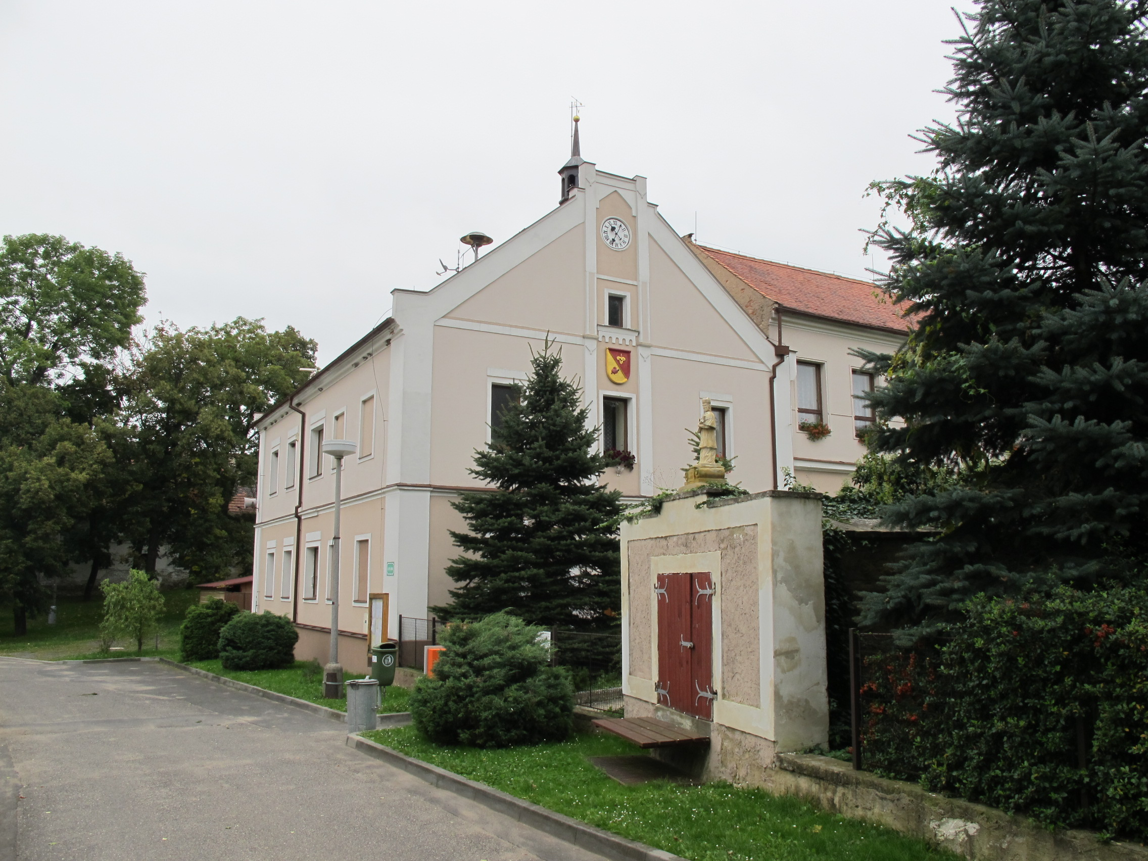 The building of Local authority in Líšťany, Czech Republic